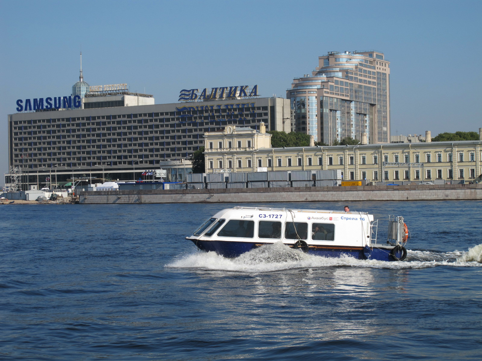 Strela aquabus on Neva River in front of Saint Petersburg Hotel